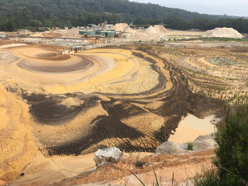 Sand and Gravel Quarry located in The Gurdies, Victoria, Australia